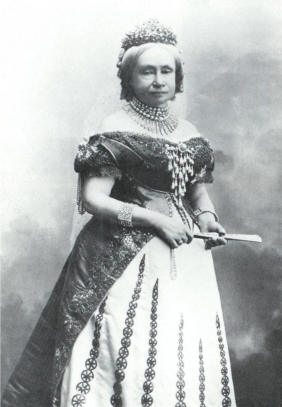 Portrait of Sophie of the Netherlands (1824-1897), Grand Duchess of Saxe-Weimar